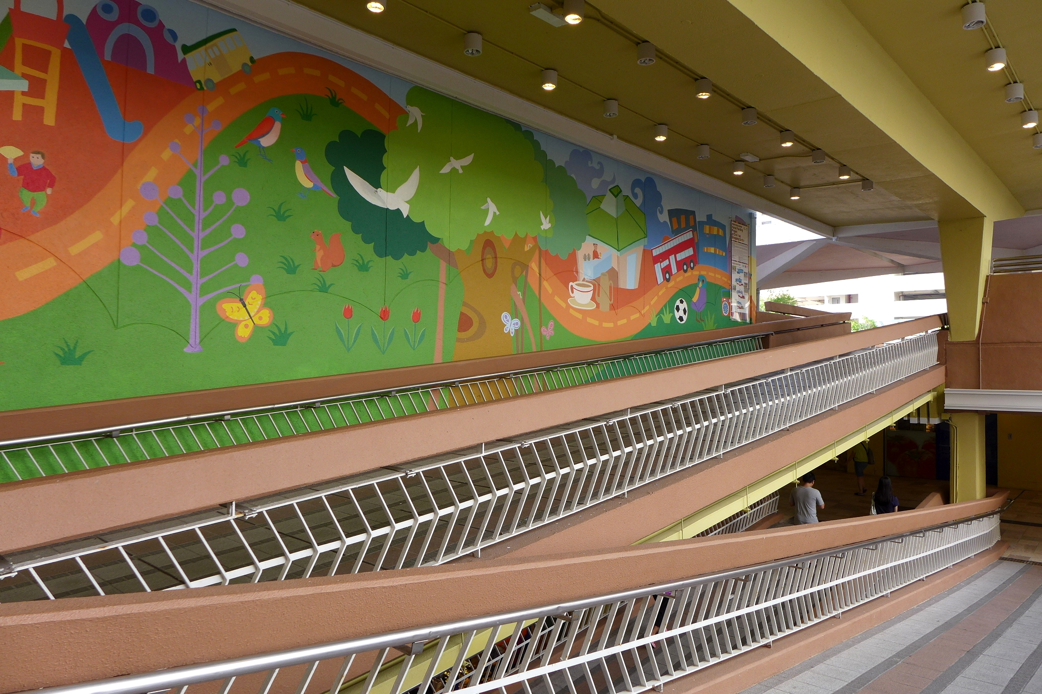 Choi Wan Estate Shopping Centre Phase 2 Path